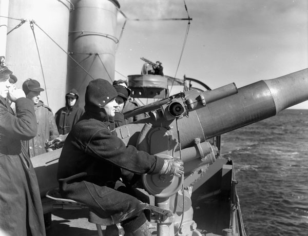 Personnel manning 4in. gun aboard H.M.C.S. St. Croix, at Halifax, Nova Scotia.